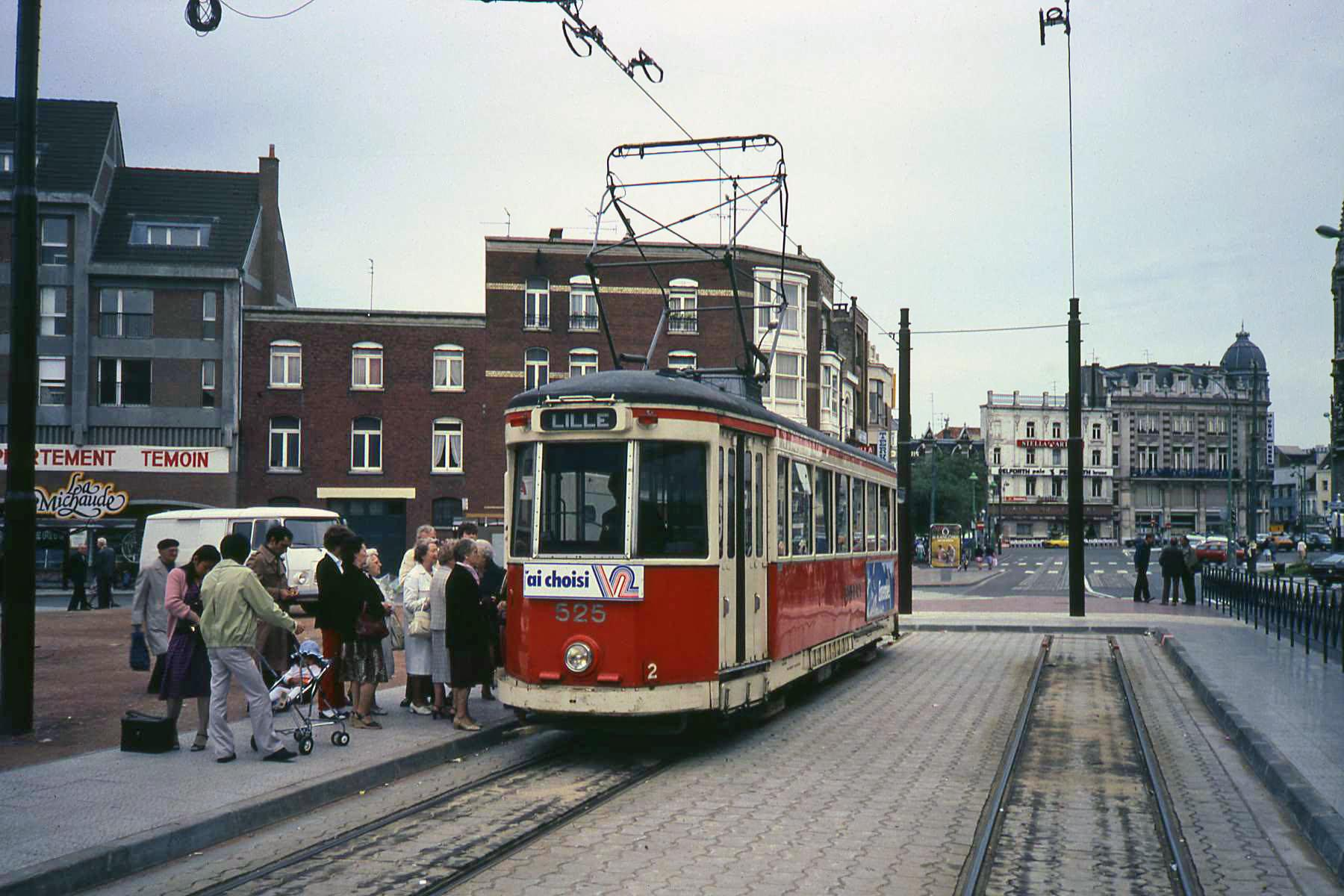 Tram terminus in rue Carnot. It used to continue in loop around the church.